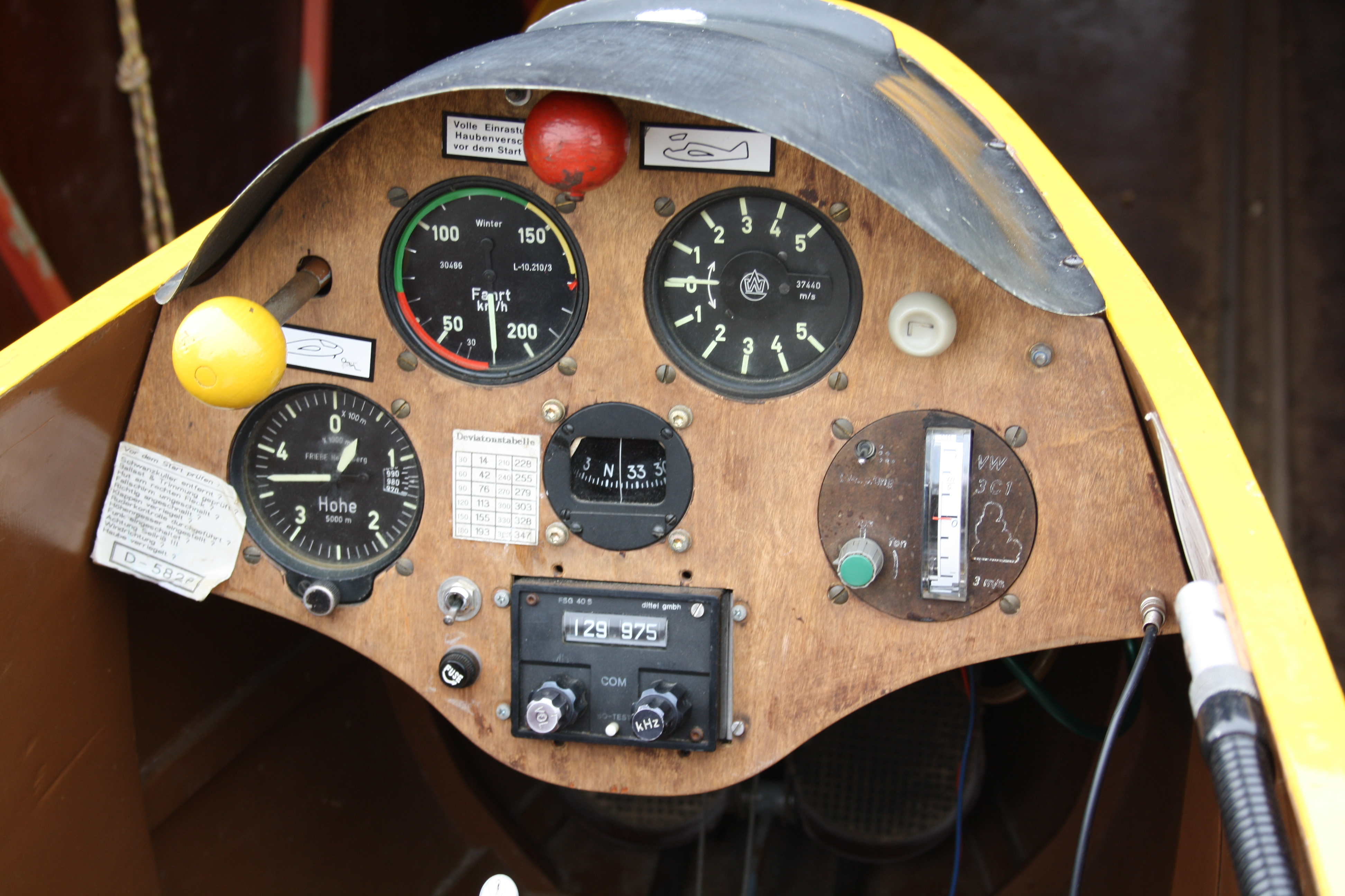 Cockpit of the sailplane Geier II B